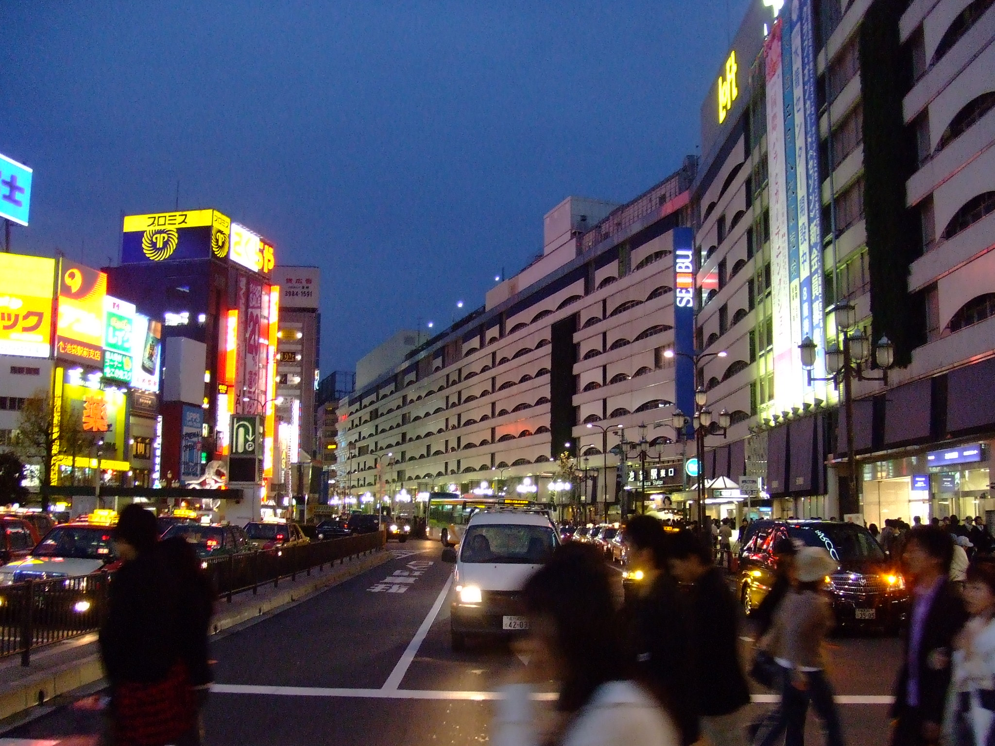 Ikebukuro Station East Exit at night